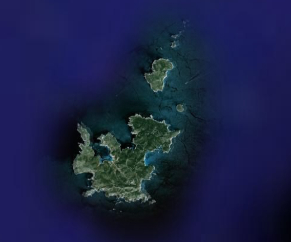 Satellite picture of Cabrera Archipelago National Park — in the Balearic Islands, Spain. Also a Balearic Islands Natural Area of Special Scientific Interest. Credits Satellite image of Cabrera - Source: NASA World Wind - Used Filter: "NTL Landsat7 (Visible Color)" - License: "The Landsat Global Mosiac, Blue Marble, and the USGS raster maps and images are all Public Domain."